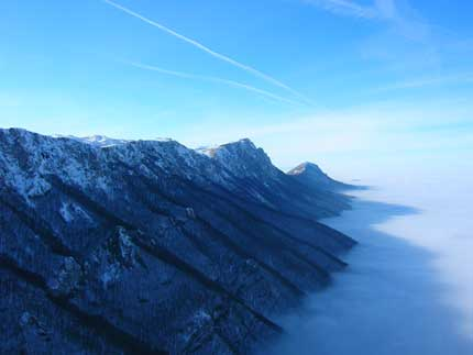 Foreland of Suva planina mountain in Winter, Serbia/La chaine de montagne de la Suva Planina en hiver, Serbie